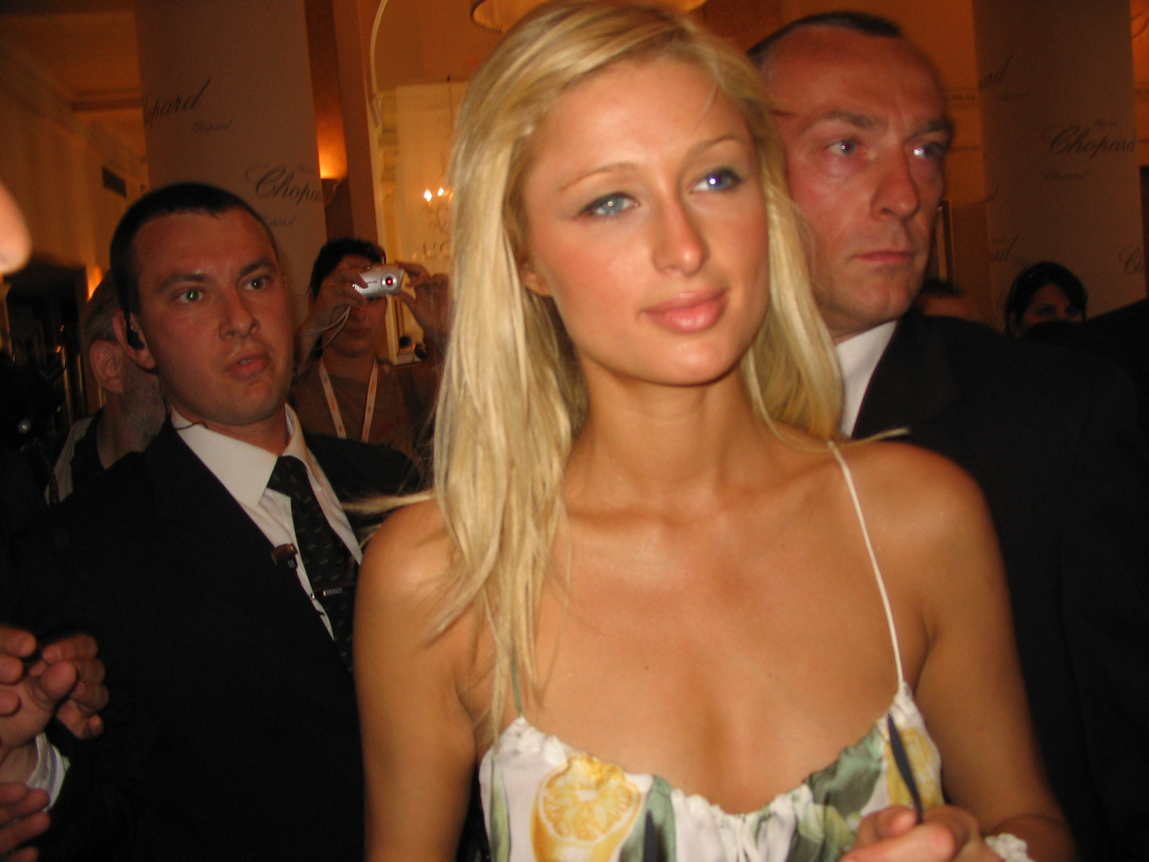 Paris Hilton at Cannes Film Festival 2005